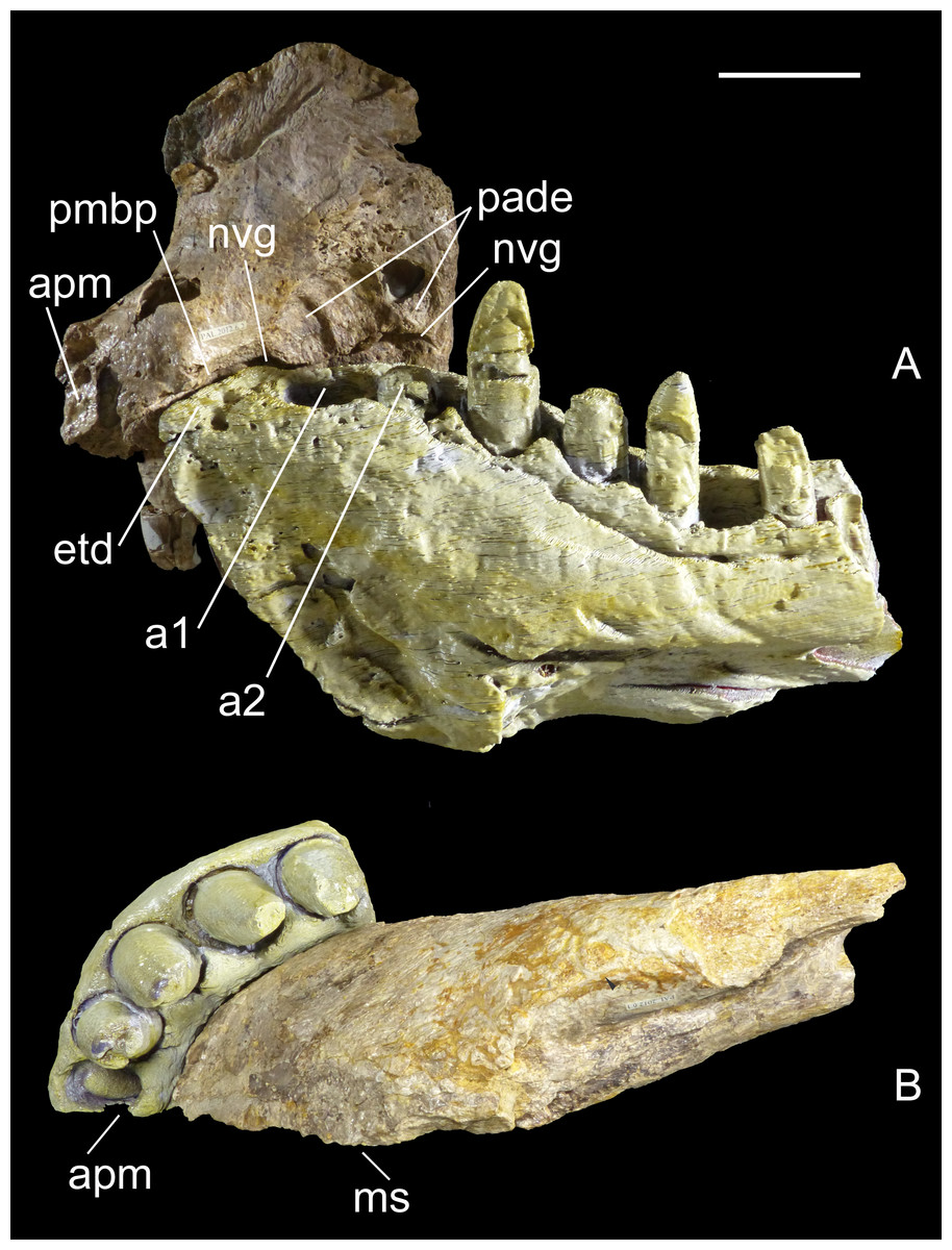 Identical counterlateral copies, 3-D printed from CT data, of the left dentary (MHNT.PAL.2012.6.1) and right premaxilla (MHNT.PAL.2012.6.2) herein described, rearticulated with the original specimens. The perfect occlusion of the two bones, in medial (A) as well as in ventral (B) views, unequivocally demonstrates that MHNT.PAL.2012.6.1 and MHNT.PAL.2012.6.2 pertain to the same individual. Scale bar = 5 cm.